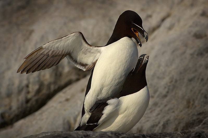 Alca torda, Runde, Norway